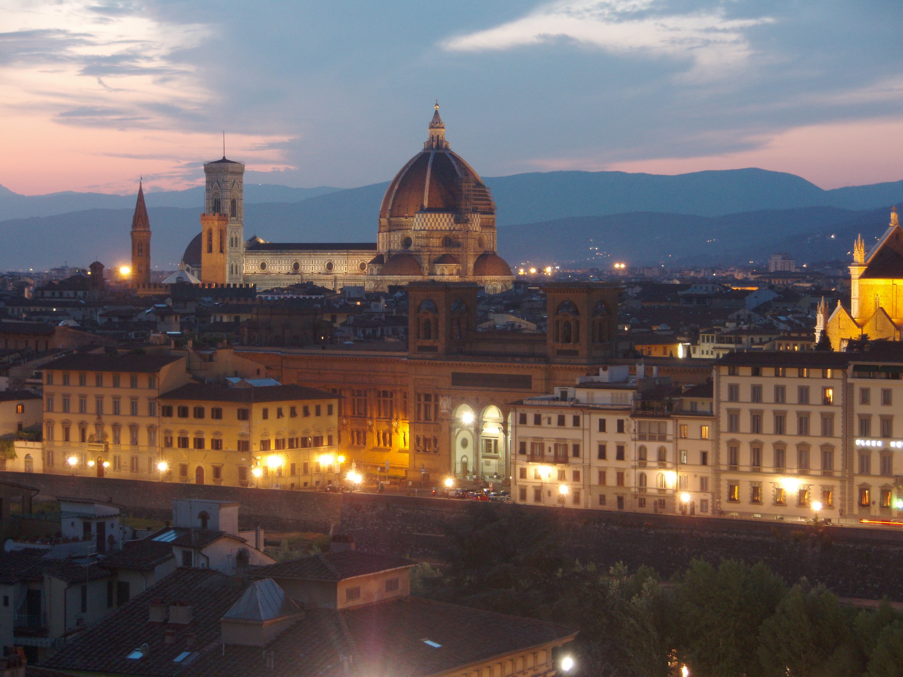 Duomo of Florence in the evening sun.